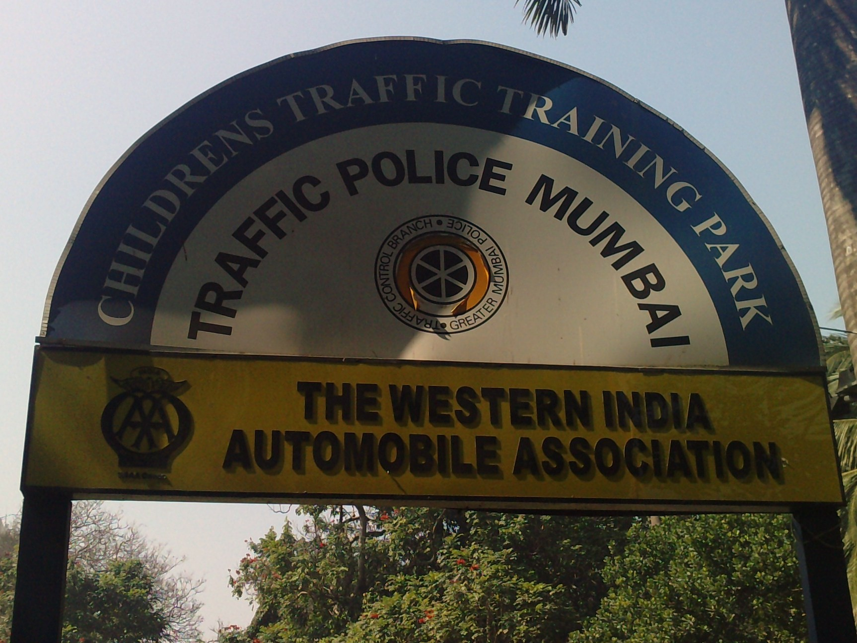 TAKEN DURING WIKIPEDIA TAKES MUMBAI 1 PHOTOWALK